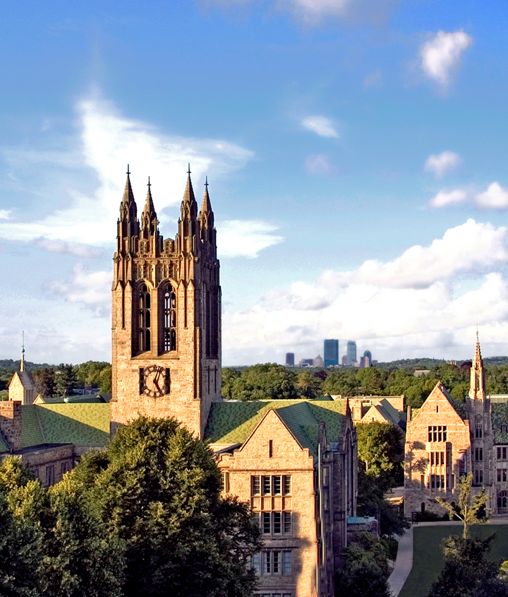 View of Boston skyline from Gasson Tower Boston College - Chestnut Hill, Massachusetts, USA Photo © 2006 Harvey D. Egan, SJ Photo by author Category:Boston College